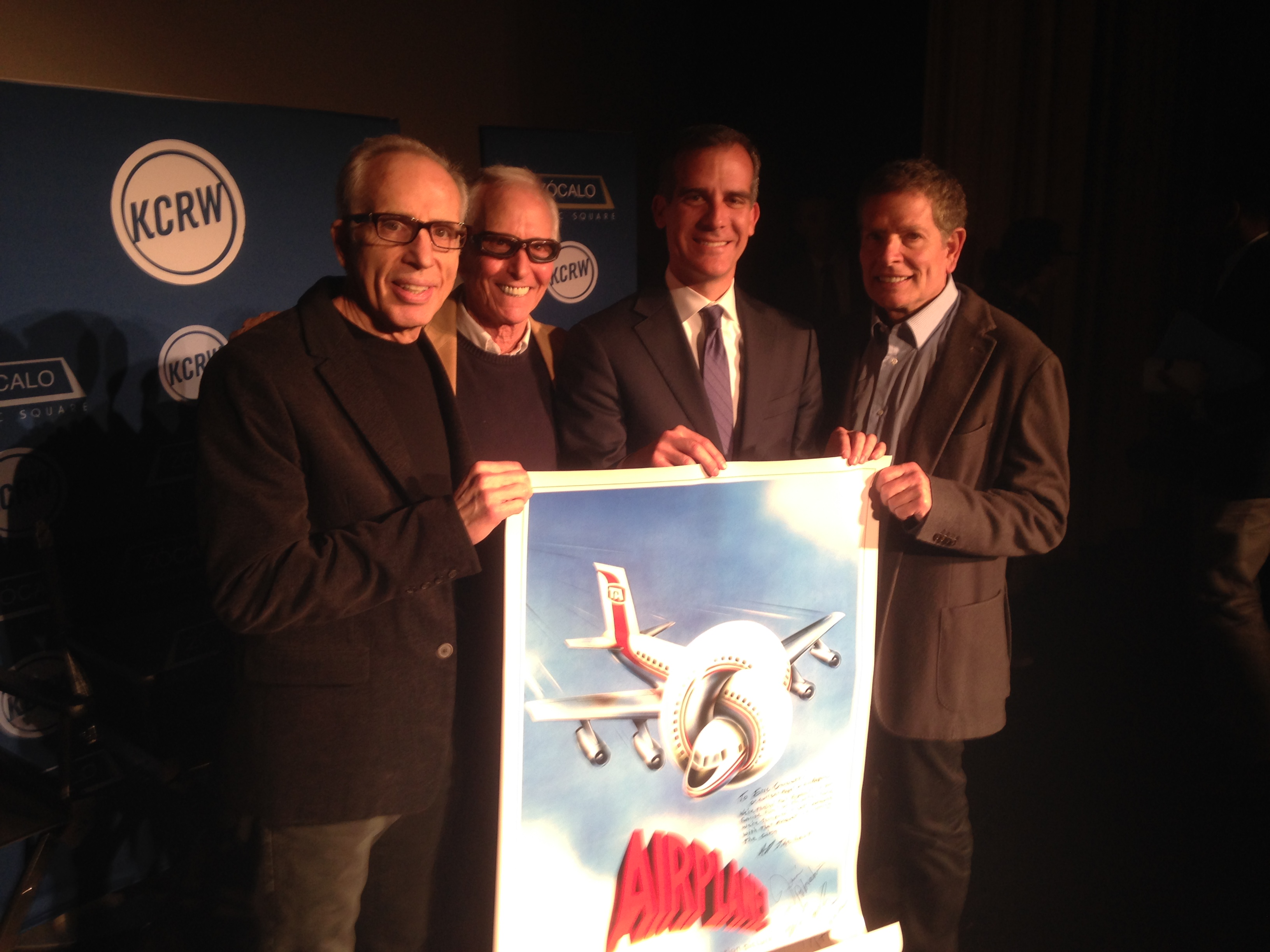 Mayor Garcetti hanging out with Jim Abrahams, Jerry and David Zucker, the creators of his favorite movie Airplane!